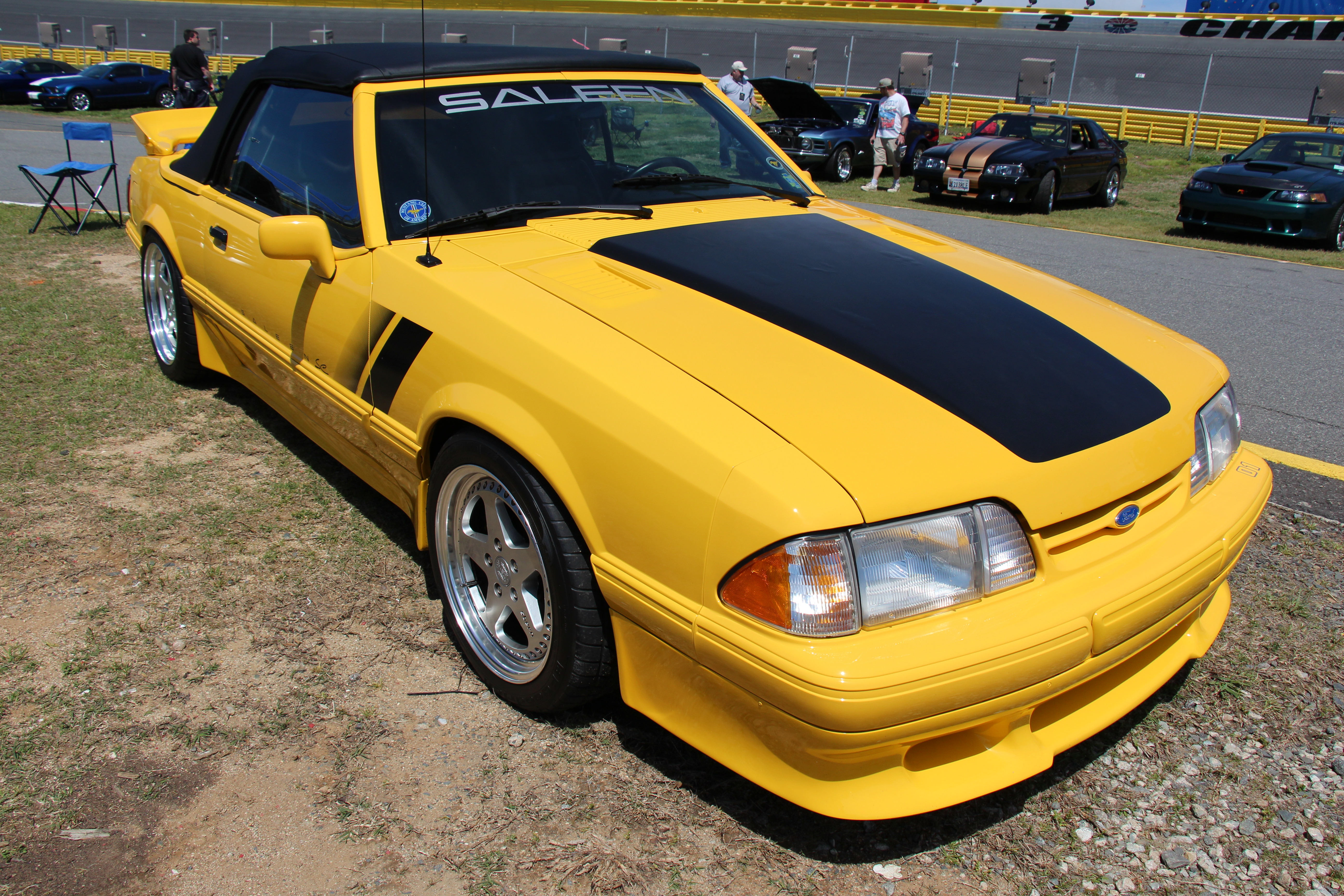 Canary Yellow. The 3rd generation Fox body Mustang was made from 1979-1993, a minor update to front and rear in 1983, and again in 1985, then a more substantial update in 1987 saw the grille and quad headlights replaced by modern single headlights and the no grille aero look. Only models available were the LX and GT and just the 2.3 litre 4 and 5.0 V8, still coupe, hatchback and convertible. Saleen manufactured limited edition, high-performance Mustangs. The SC was produced from 1990 to 93. Only 3 hatchbacks and 2 convertibles in 1993. They got the Vortech Supercharger making 291 hp. Photographed at the 50th Anniversary of the Mustang celebrations at the Charlotte Motor Speedway, April 2014